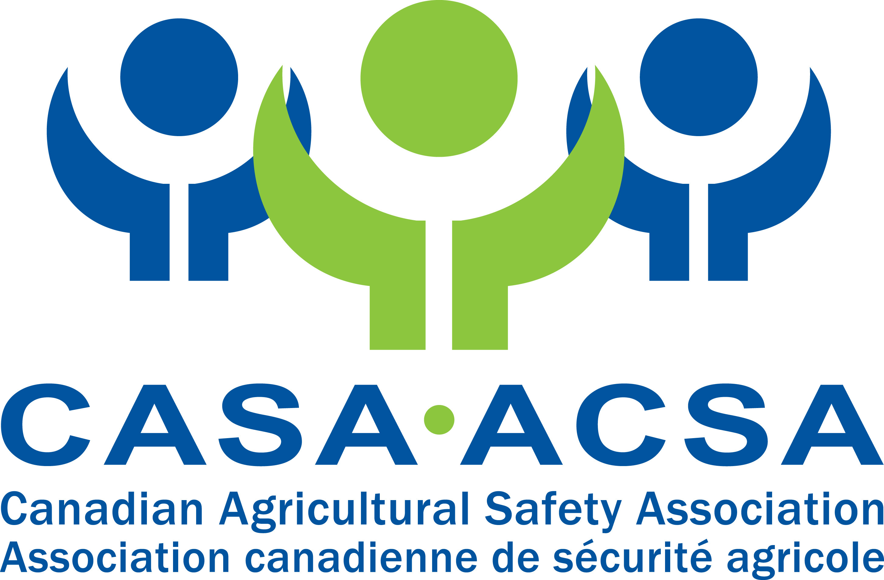 CASA's new 2009 logo. CASA was established in 1993 in response to an identified need for a national farm safety networking and coordinating agency to address problems of illness, injuries and accidental death in farmers, their families and agricultural workers. Since then, CASA has worked to improve the health and safety conditions of those who live and work on Canadian farms.